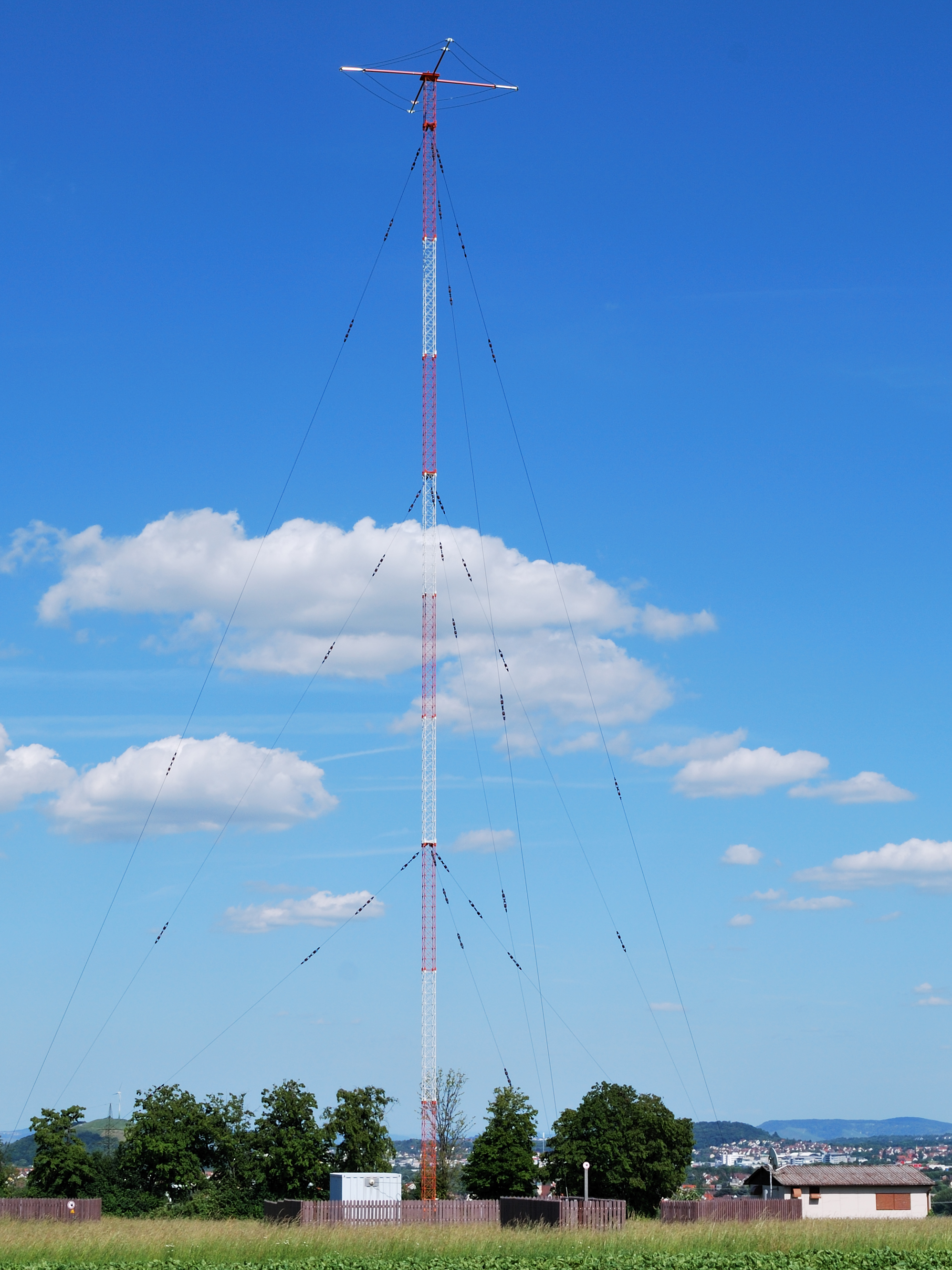 Mast radiator broadcasting antenna with a "capacity hat" at the top for "electrical lengthening". Radio mast of the medium wave transmitter in Hirschlanden, Baden-Württemberg, Germany, of the Deutsche Telekom AG for the AFN. The screen of wires supported by the four radial arms at the top of the antenna acted as a capacitor plate, with the ground as the other plate. Each cycle of the alternating current radio signal, current flows in and out of the hat, just as if the tower continued above it. This serves to increase the current in the top part of the antenna, increasing the radiated power, as if the tower was longer.